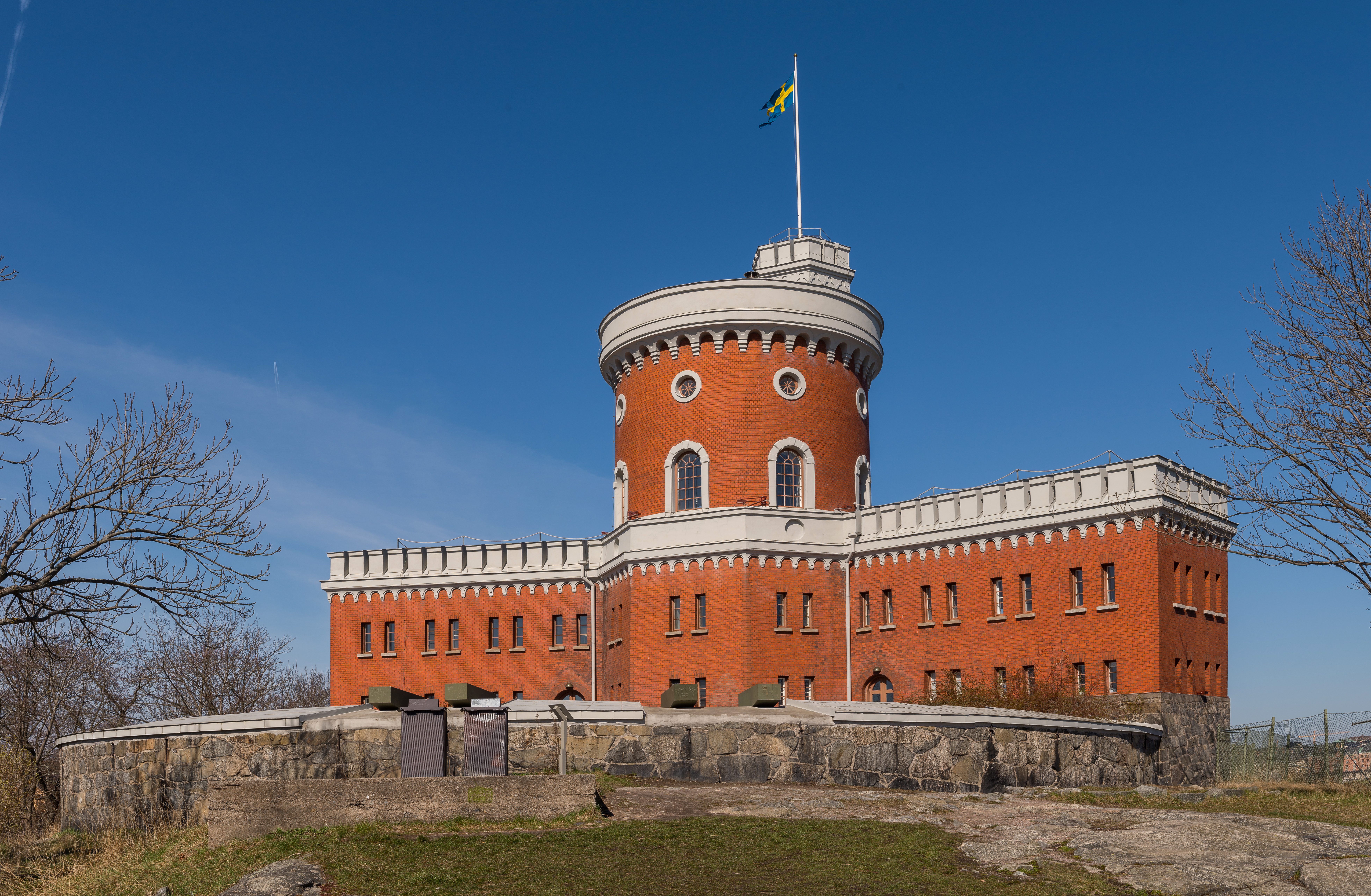 Kastellet is a small citadel located on the islet Kastellholmen in central Stockholm, Sweden.